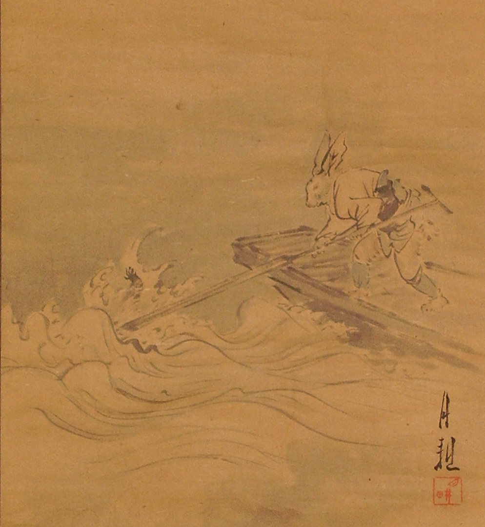 Rabbit's Triumph - climax of the Kachi-kachi Yama.markings of Ogata Gekko.detail - image for k-k y article.version 1.wittig collection - painting 22. painting has signature & seal of Ogta Gekko; authentification pending late 19th to early 20th century